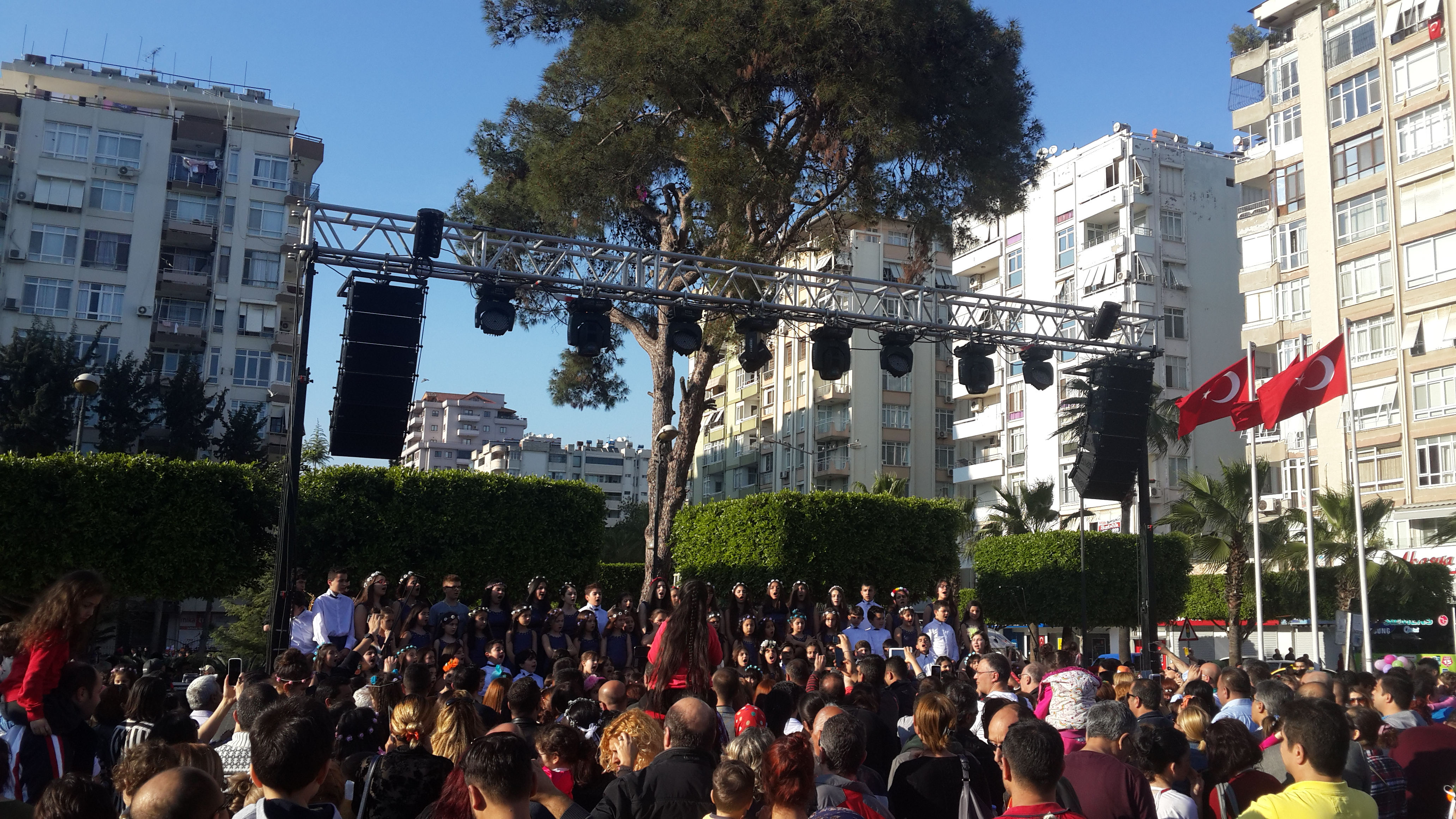 Nilüfer Women's Choir at the Atatürk Park.